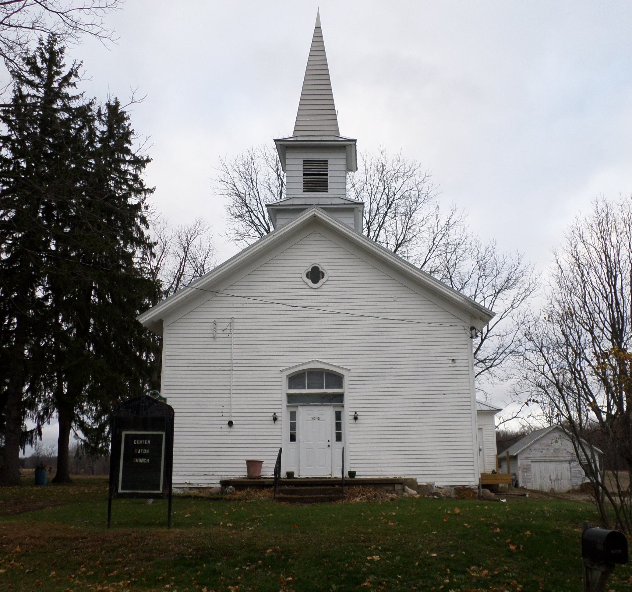 The Center Eaton United Methodist Church, located at 2093 Narrow Lake Rd, Charlotte, MI.